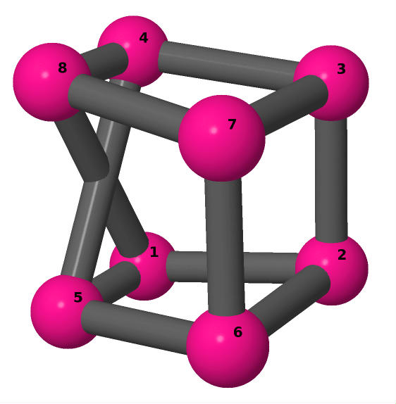 One of 5 simple cubic Hamiltonian graph with 8 vertices.